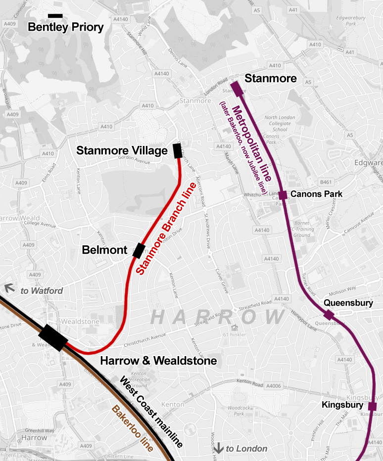 Map of the Stanmore branch line in north London, UK (opened 1890, closed 1964), which ran from Harrow & Wealdstone to Stanmore Village via Belmont